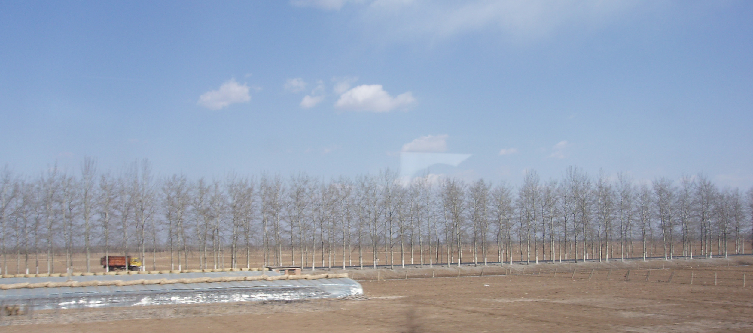 North China Plain in winter